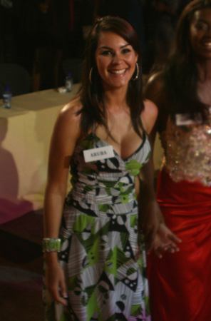 Miss Aruba 2008 Christina Trejo during Miss World 2008